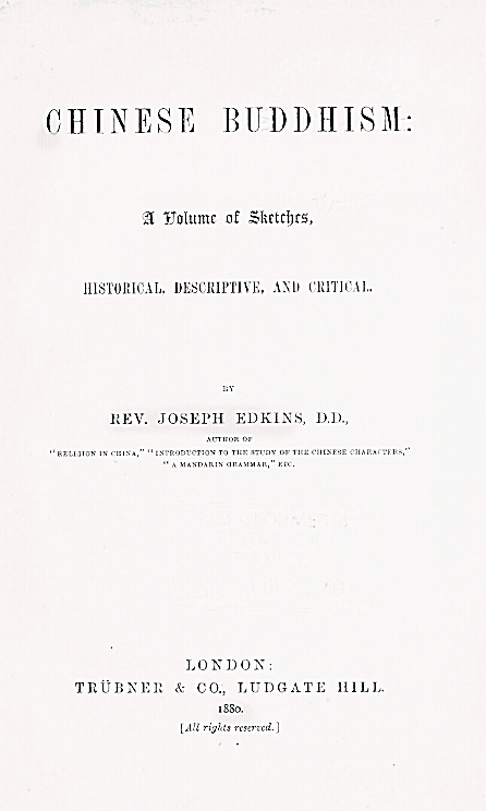 Book cover: Chinese Buddhism